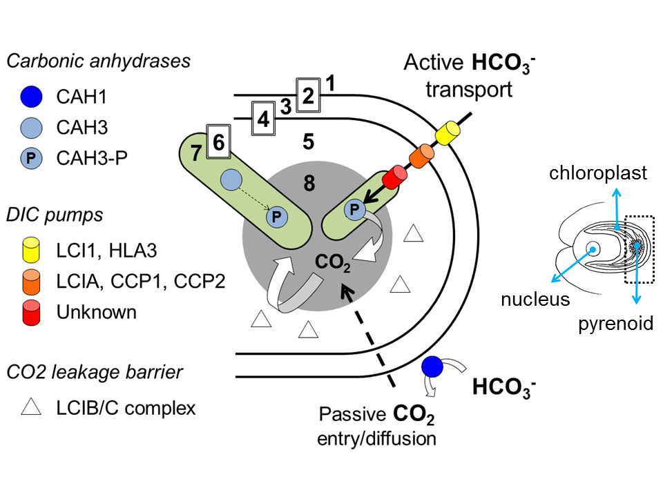 Figure depicting the currently accepted model for the carbon concentrating mechanism seen in Chlamydomonas reinhardtii.